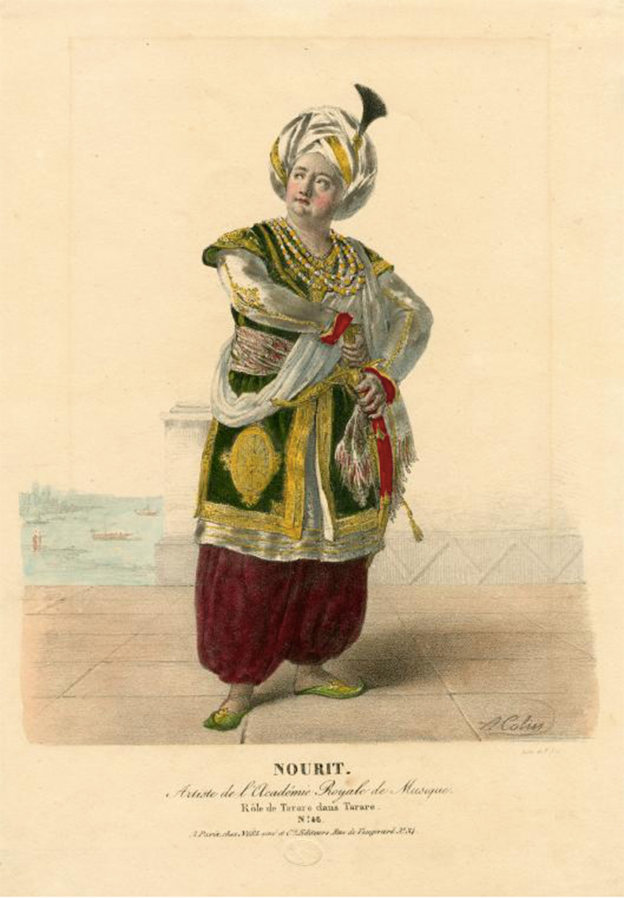 Adolphe Nourrit – Tarare (Salieri)